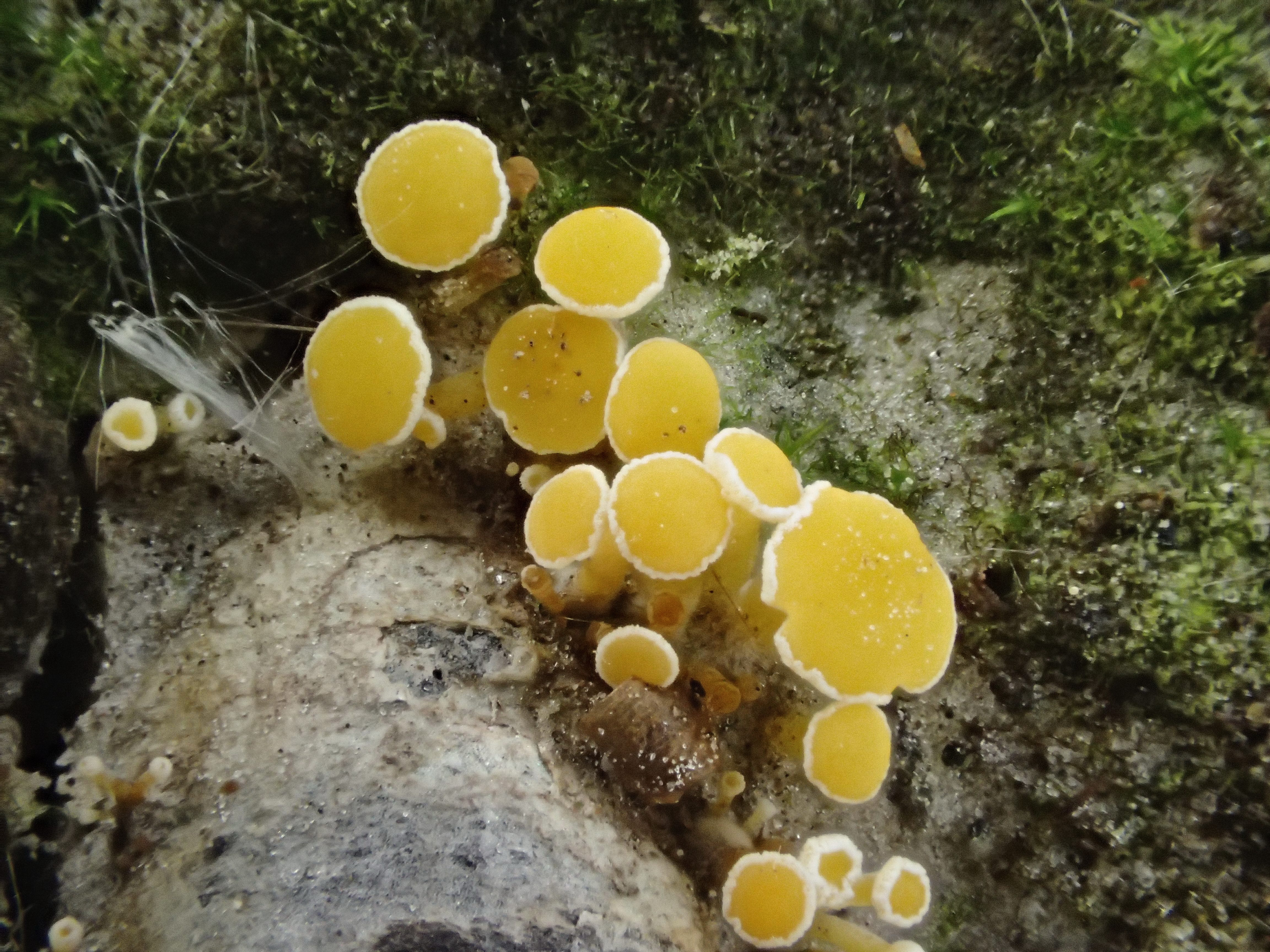 Lachnum pygmaeum (Fr.) Bres. Image location: Thale, Sachsen-Anhalt, Germany Based on microscopic features For more information about this, see the observation page at Mushroom Observer.